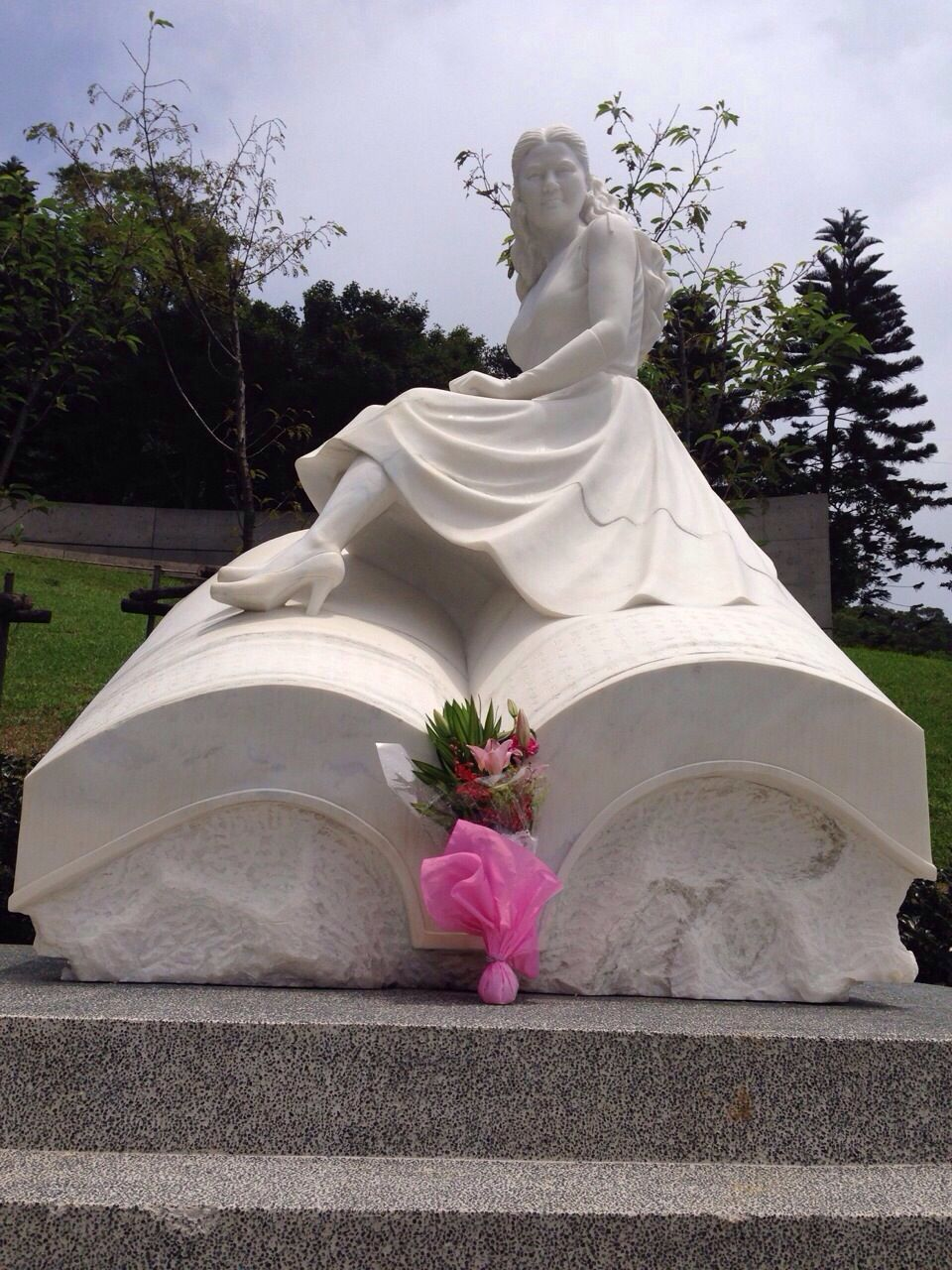 The tomb of Kuo Liang Hui